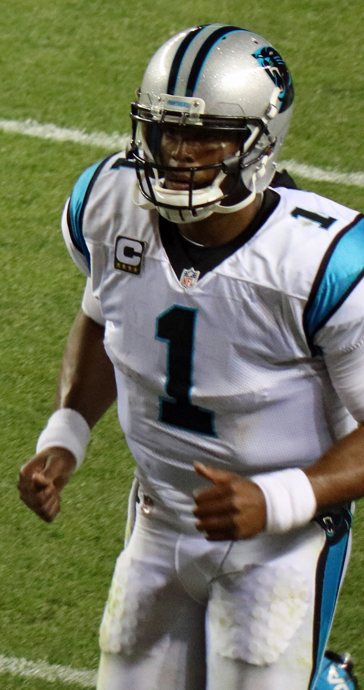 Cam Newton, a player on the National Football League.